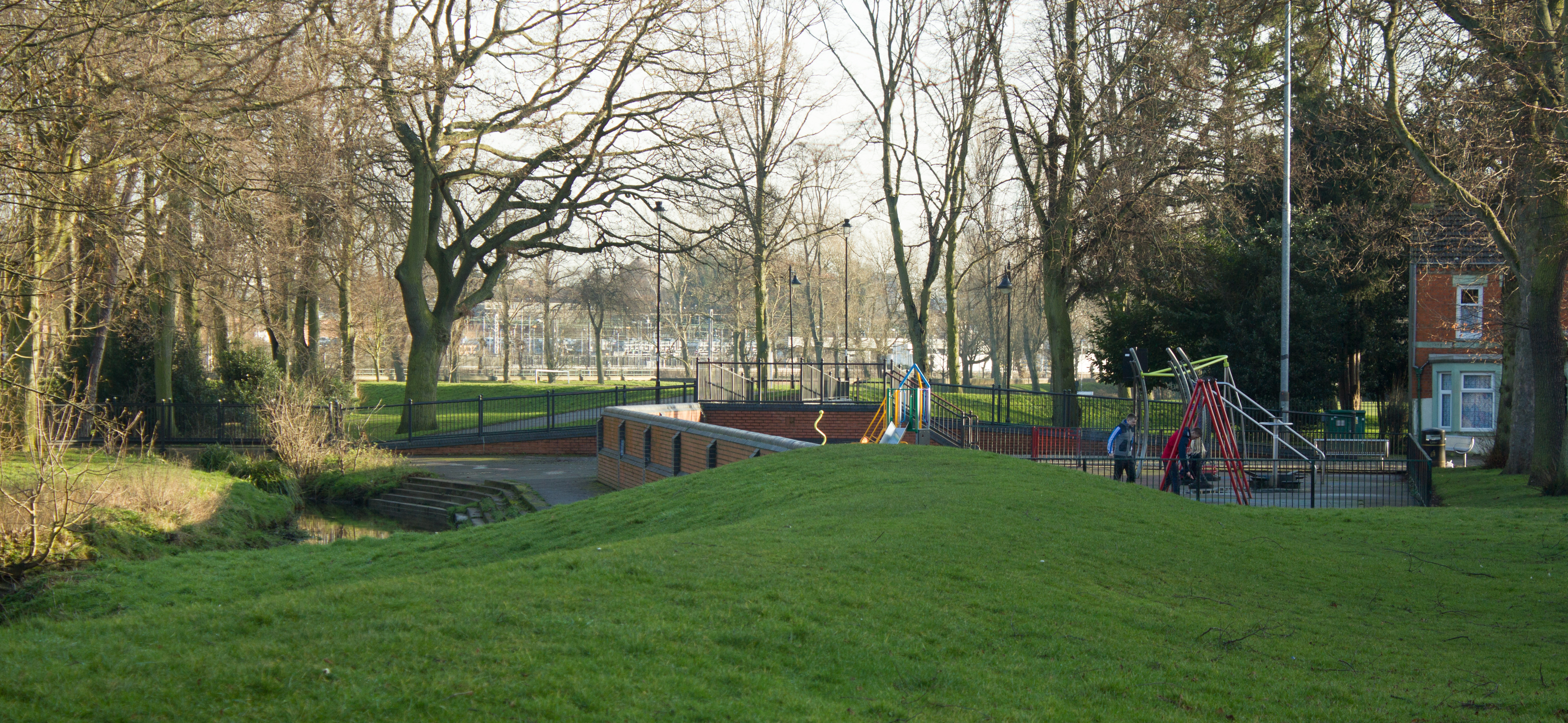 Victoria Park, Northampton, England, looking south across Dallington Brook